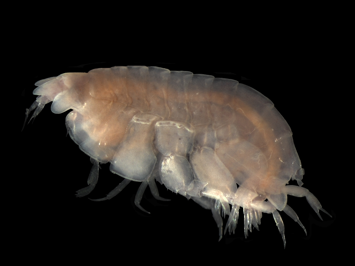 Burying amphipod from subtidal sandy substrates.Camera mounted on a Zeiss Stemi C-2000 binocular microscopeLength: ~4 mm.Dutch Continental Shelf. Geo-location gives the position where the amphipod was sampled in 2004.